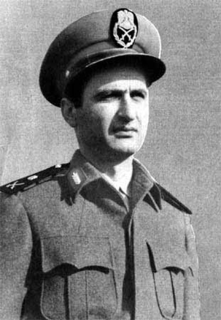 General Salah Jadid, the Baathist officer who helped launch the revolution of March 8, 1963 and became Chief-of-Staff until launching another coup in February 1966, that toppled the Baath Party founders Salah al-Bitar and Michel Aflaq.